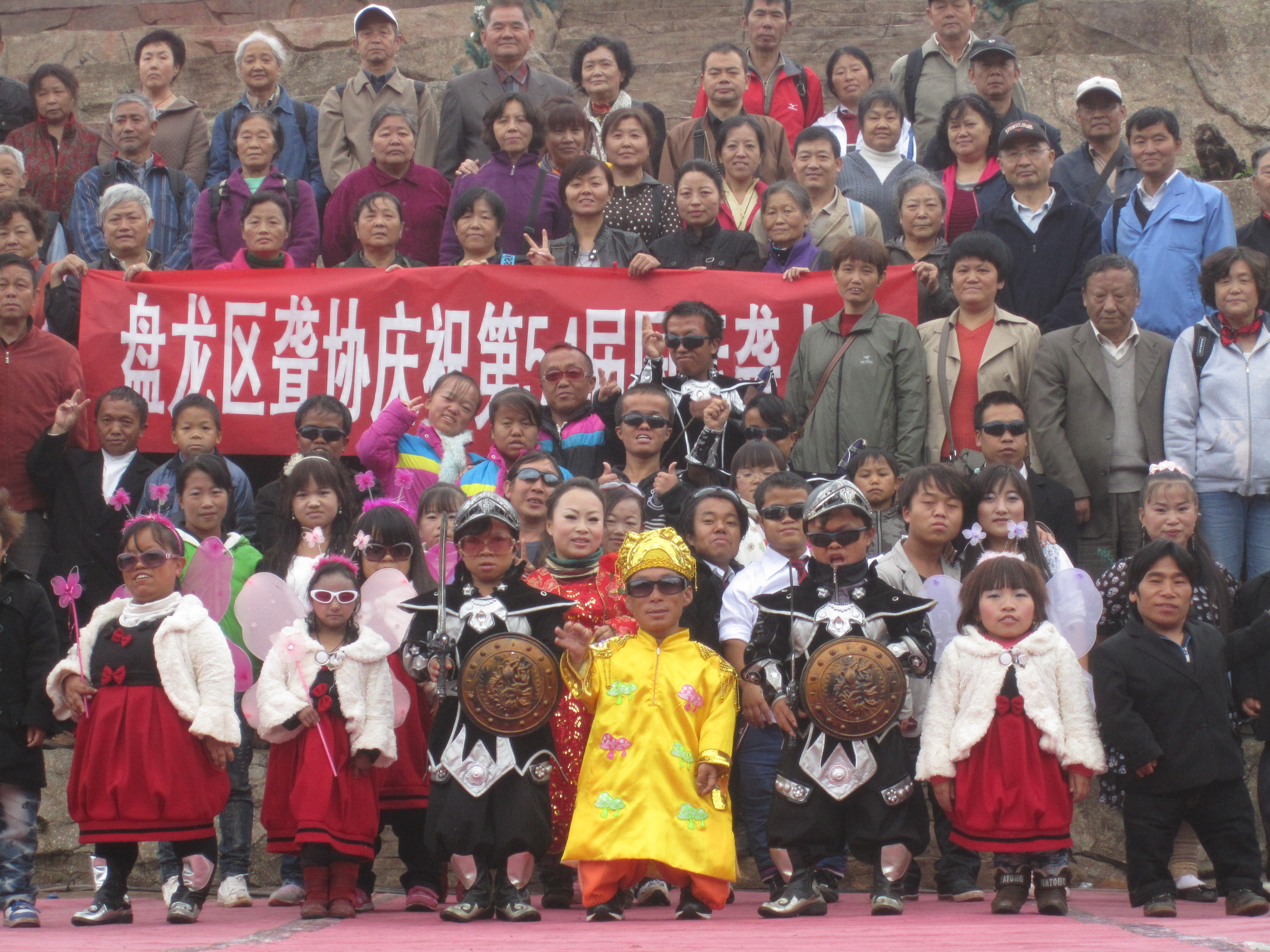 The Kingdom of the Little People (Chinese: 小矮人王国; pinyin: Xiǎo Ǎirén Wángguó), a theme park located near Kunming, Yunnan